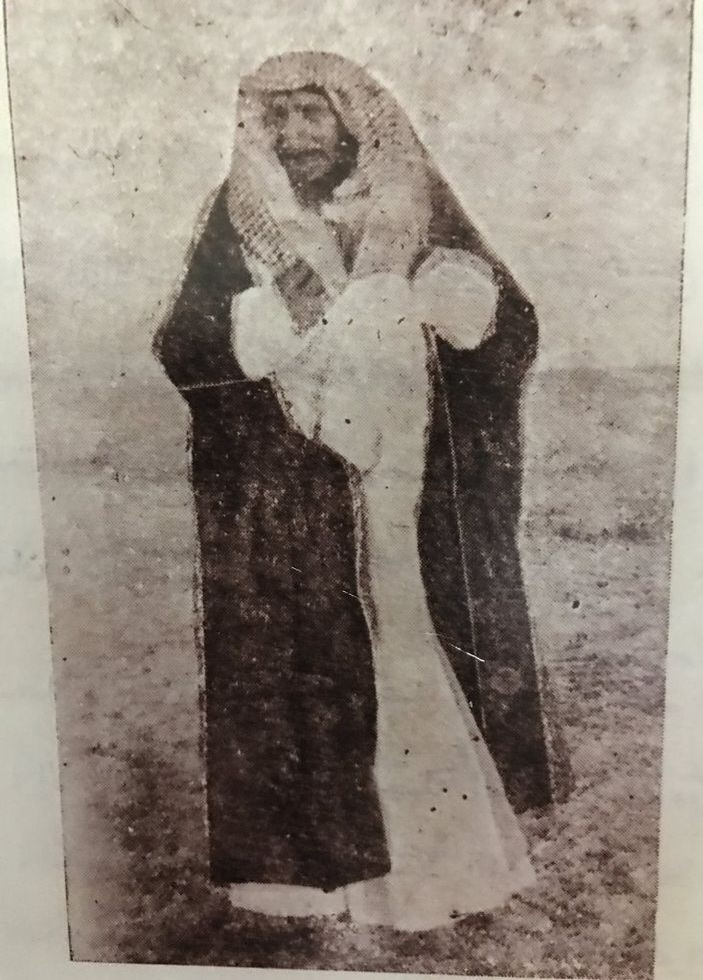 فيصل الدويش